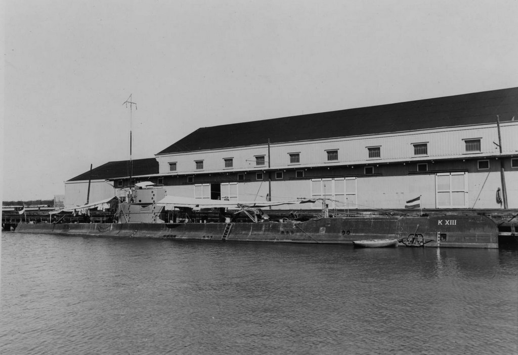 Dutch submarine K XIII in the harbour of Honulullu.